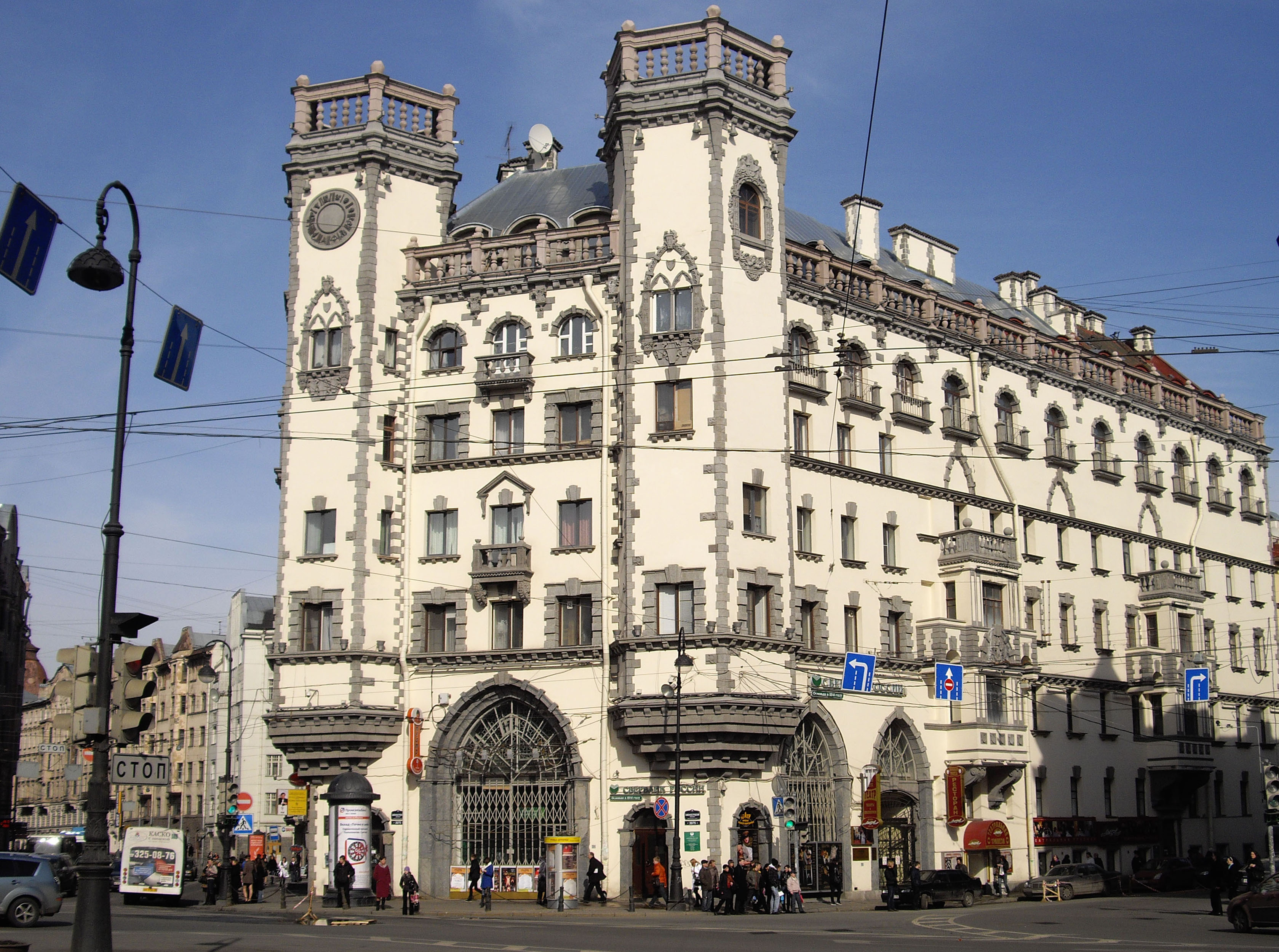 "House with Towers" in Petrograd Side of Saint Petersburg